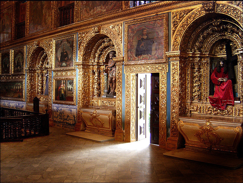 Details of the interior of the Golden Chapel, in Recife, Brazil. The decorative reliefs are carved in wood and covered with thin layers of gold.